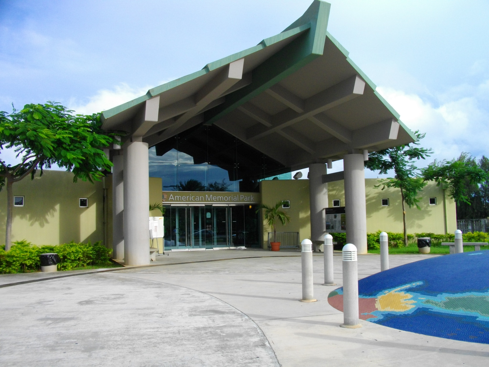 American Memorial Park Visitor Center